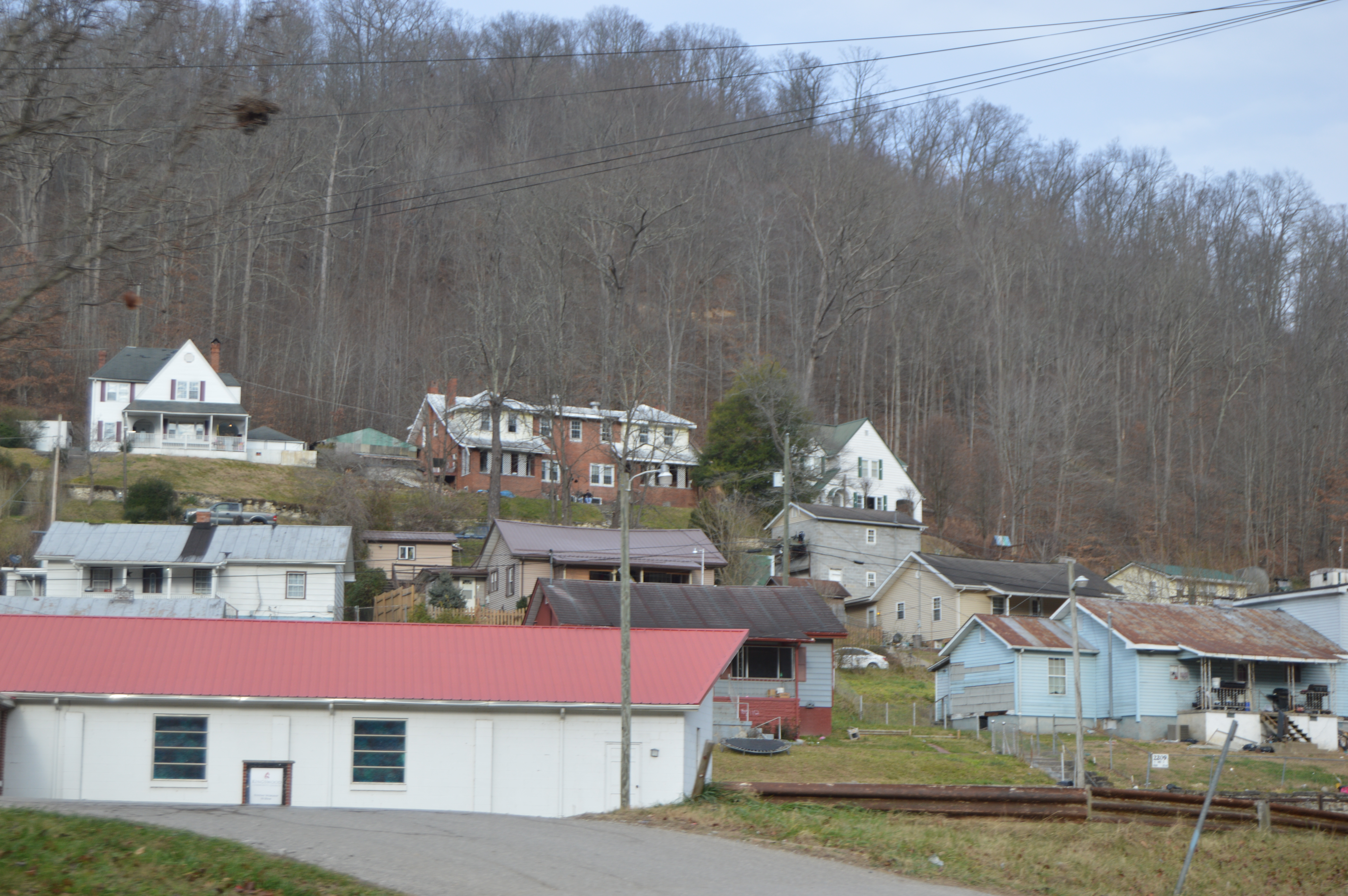 Houses at Nellis in Boone County, West Virginia, United States. The community has been designated a historic district, the Nellis Historic District, and is listed on the National Register of Historic Places.